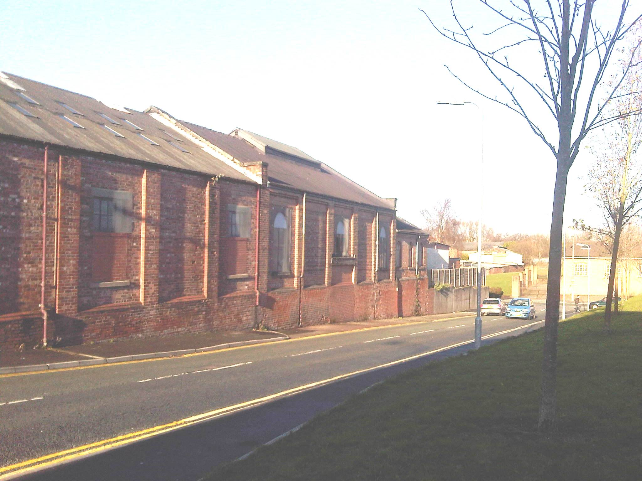 2012 photograph of former engine shed at St. Helens Central (GCR) Station & Goods yard. now part of factory building. Note smoke louvres on roof.